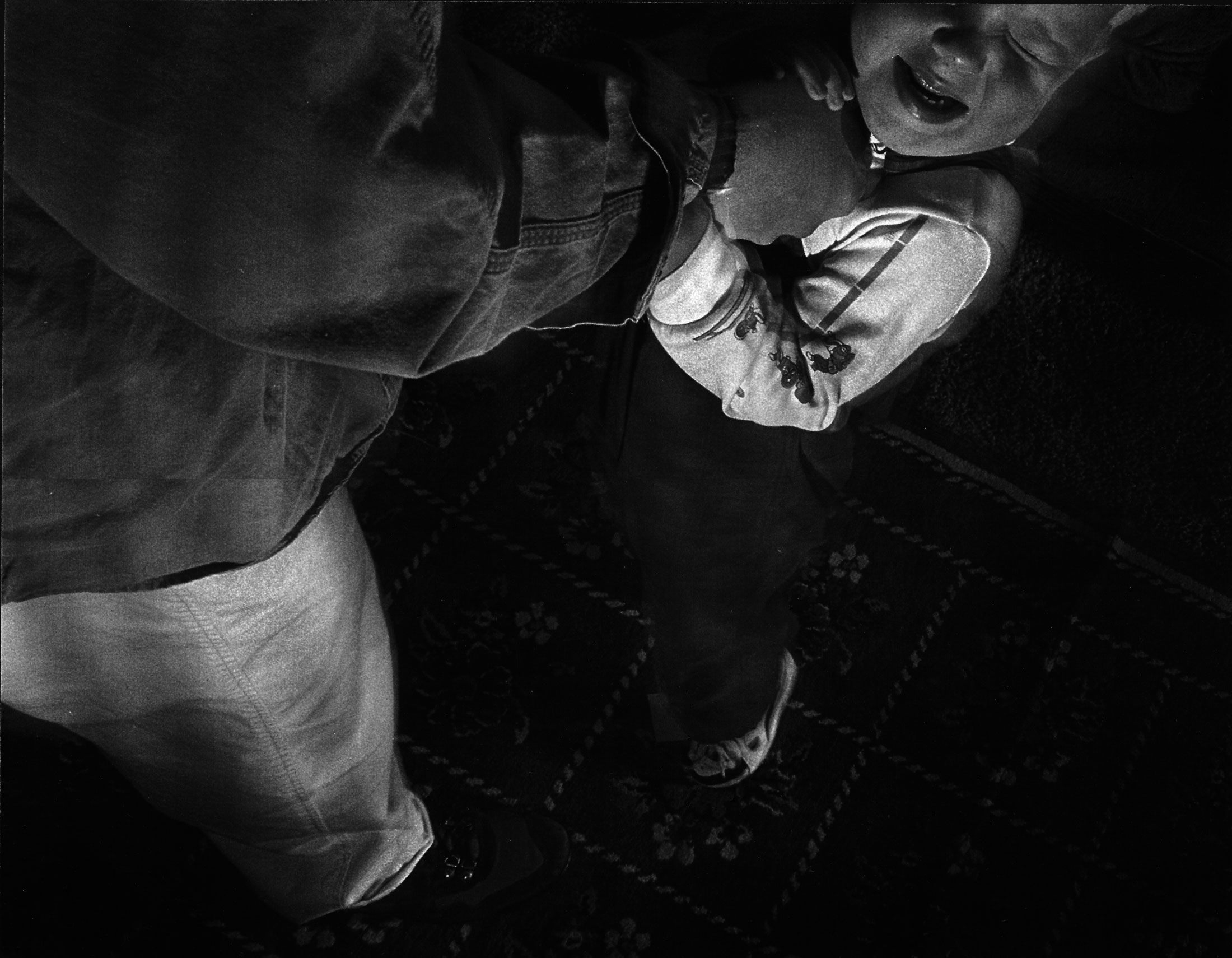 First Place Illustrative 'Silent Scream' by Staff Sgt. James D. Mossman, U.S. Air Force. This photograph was done for a story on child abuse. It is one of three photographs in a series and was taken with the intention of showing the fear and pain a child might experience at the hands of an abusive adult.